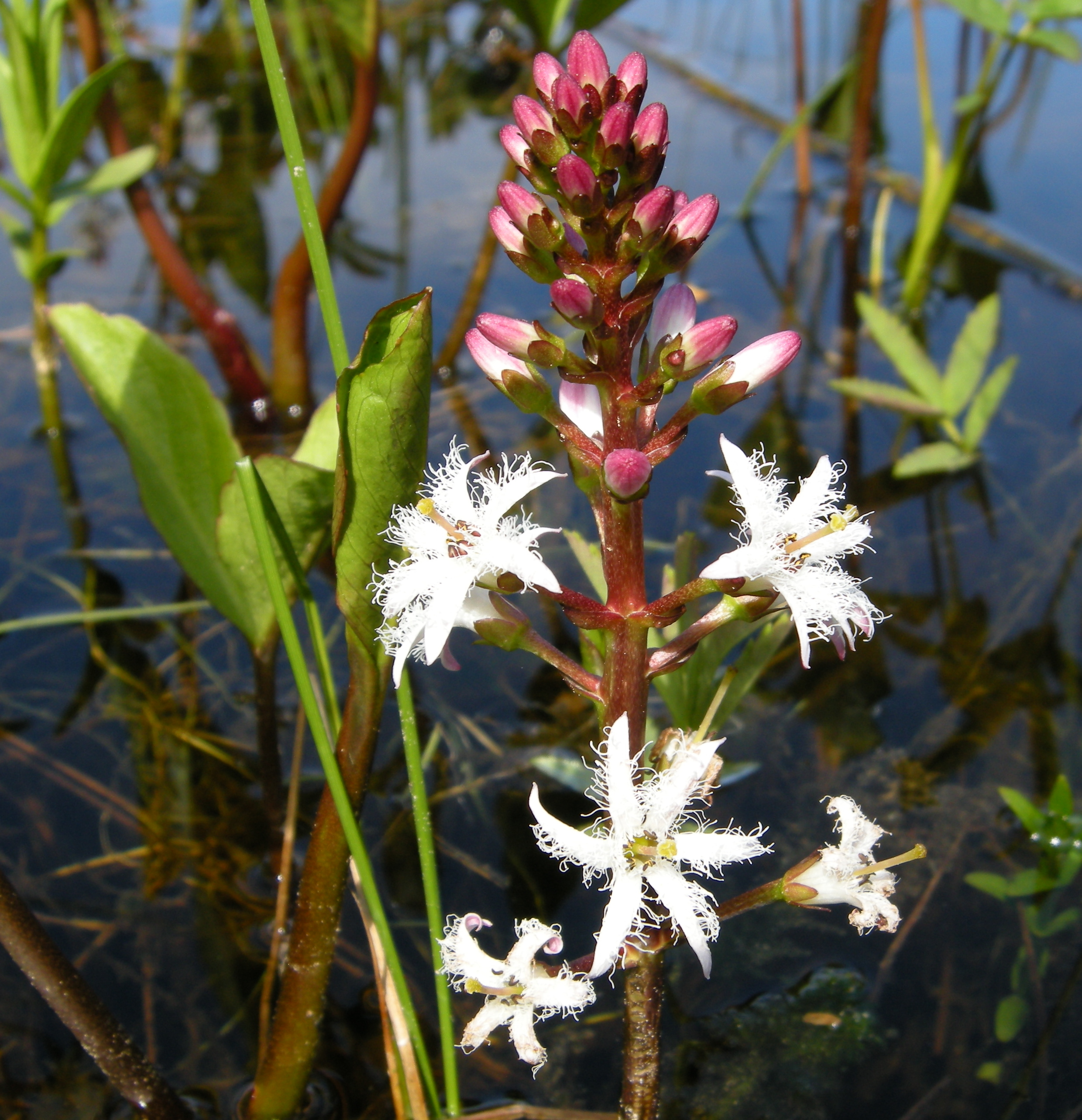 Menyanthes, Larvik, Norway.